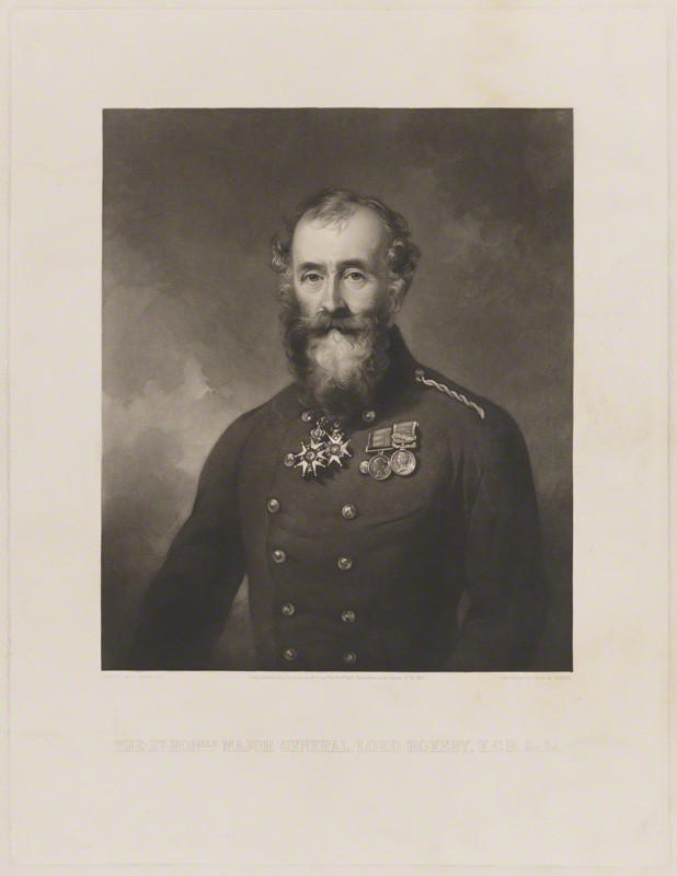 Mezzotint of 6th Lord Rokeby, by George Zobel after Sir Francis Grant, published by Henry Graves & Co, 1 March 1858. 20 7/8 in. x 16 in. (531 mm x 406 mm) plate size; 23 7/8 in. x 19 in. (607 mm x 484 mm) paper size.